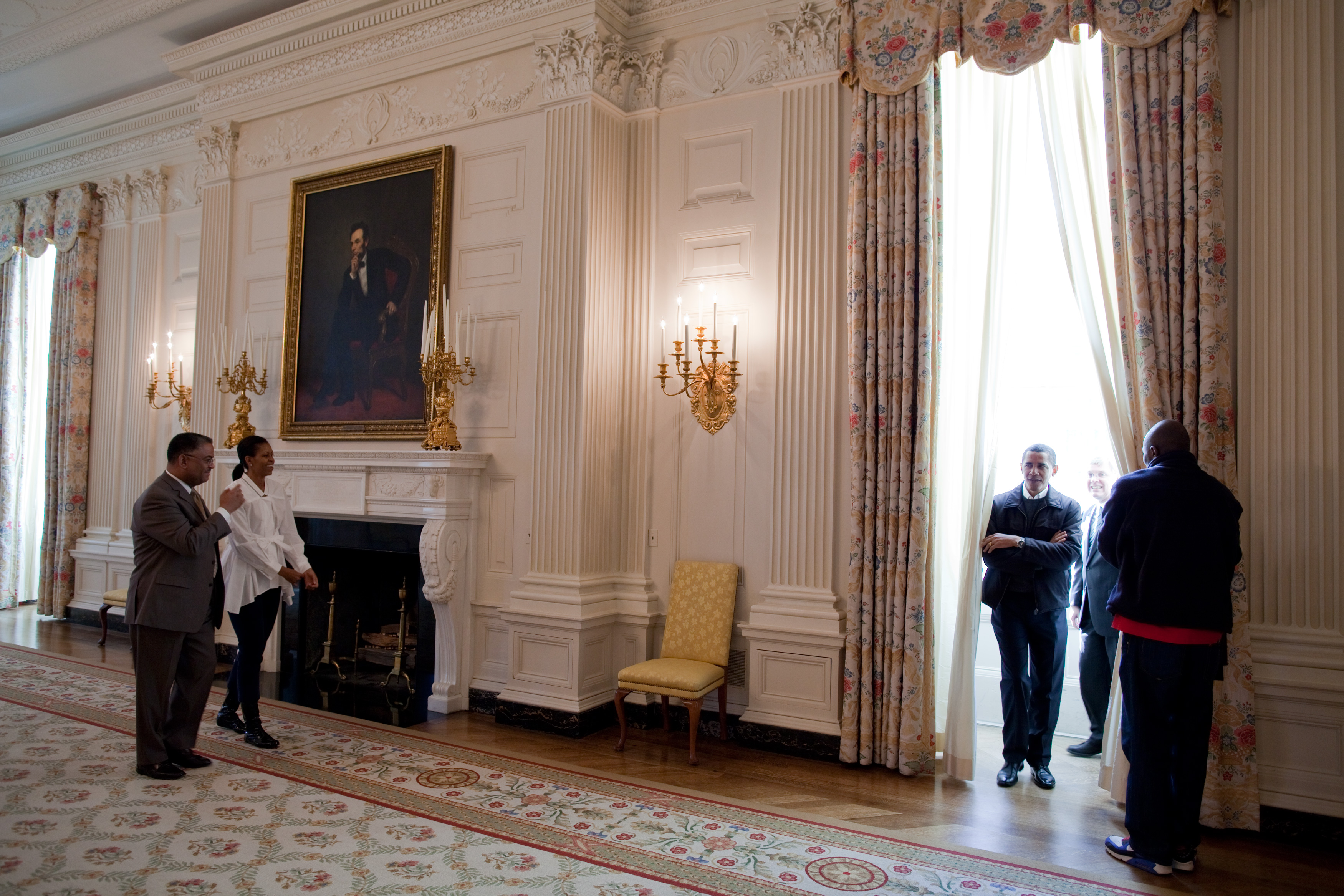 President Barack Obama and First Lady Michelle Obama tour the State Dining Room with White House Chief Usher Admiral Stephen "Steve" Rochon (left), White House Curator William G. Allman (second from right), and presidential personal aide Reggie Love (far right) on January 24, 2009.